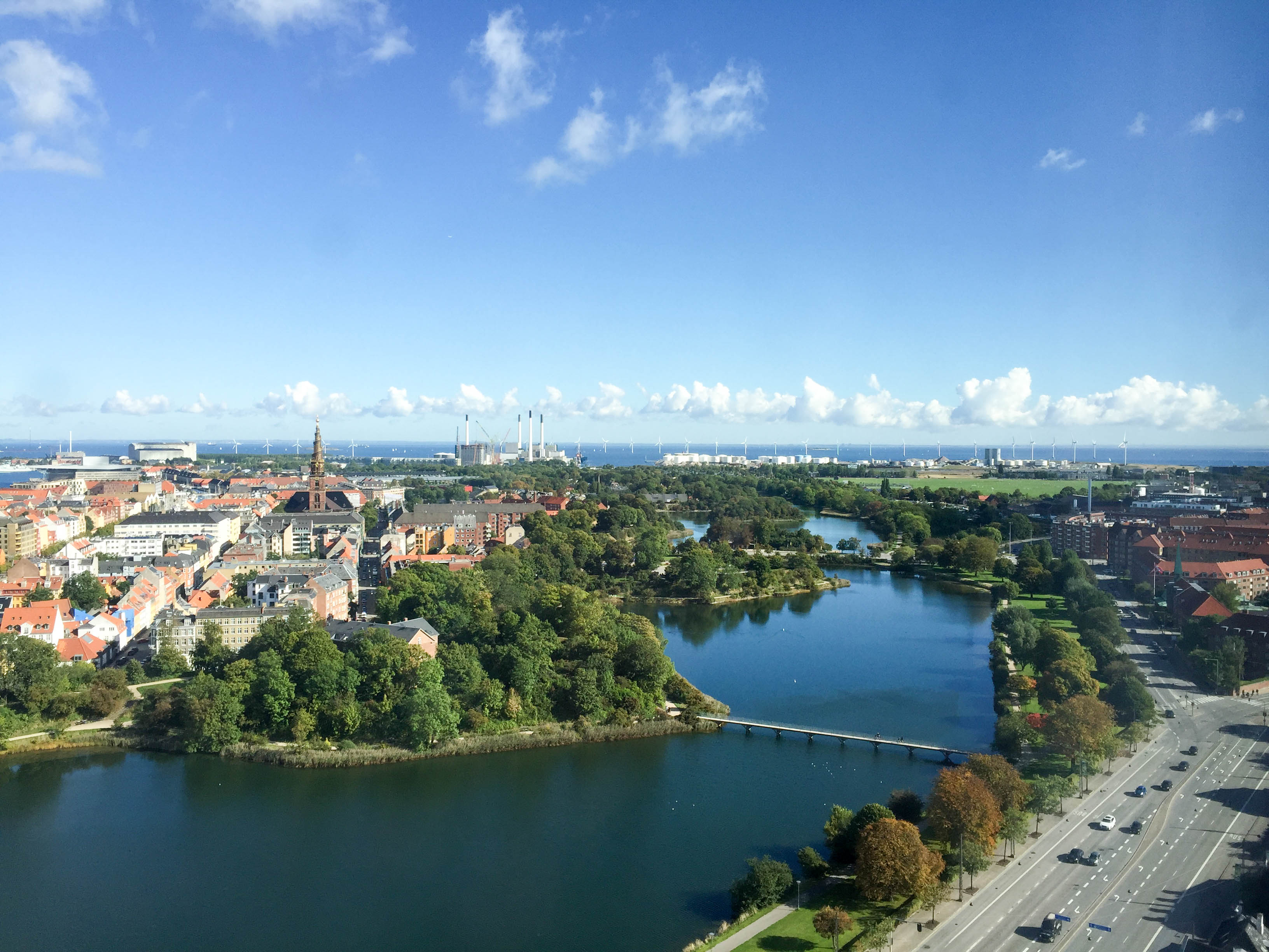 The footbridge across Stadsgraven inCopenhagen, Denmark